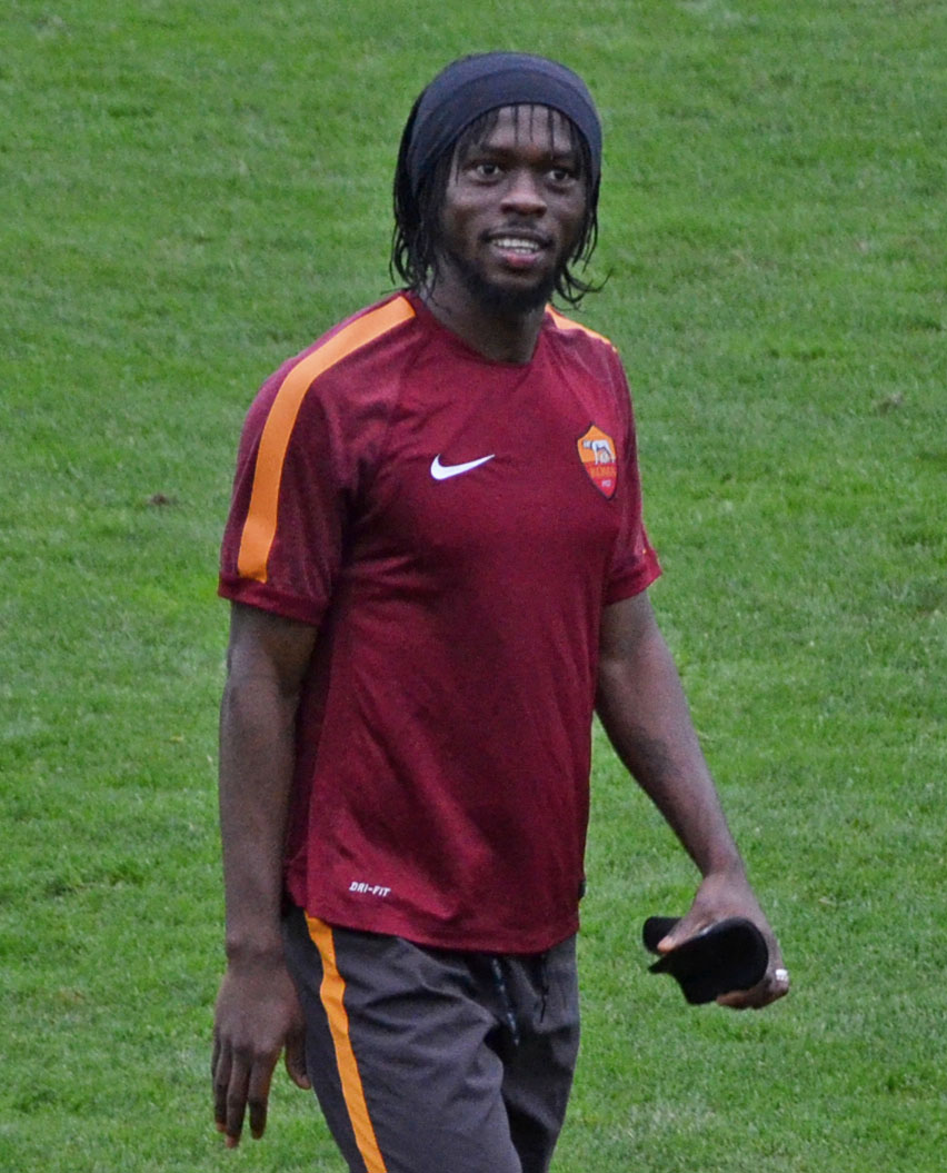 Ivorian footballer Gervinho (AS Roma), Bad Waltersdorf (Austria), 12 August 2014.